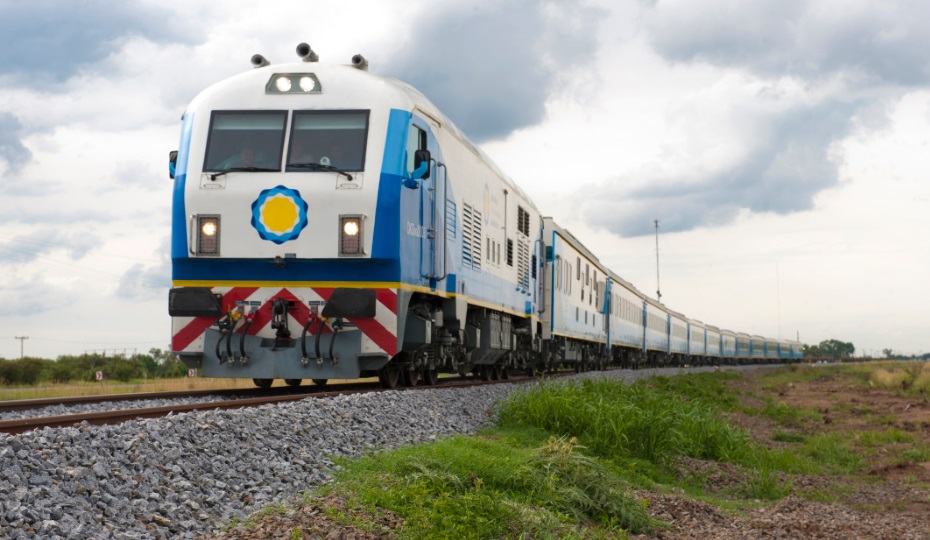 A train by CNR running on Ferrocarril Mitre tracks. The unit was acquired by the Government of Argentina to run express services Buenos Aires–Retiro.